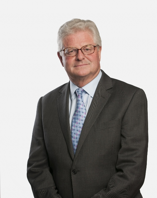 Photograph of John Frederick Nelson